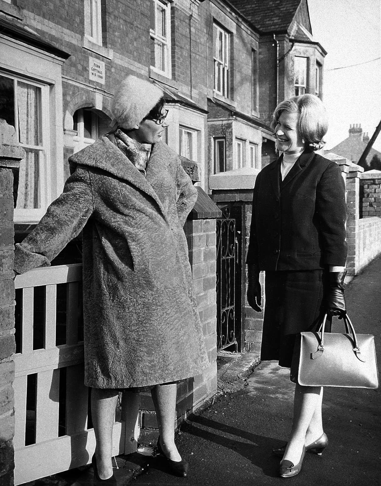 Northamptonshire Health Department: "invitation to attend antenatal classes" Archives & Manuscripts Keywords: antenatal classes; health visitors' association; Health Education